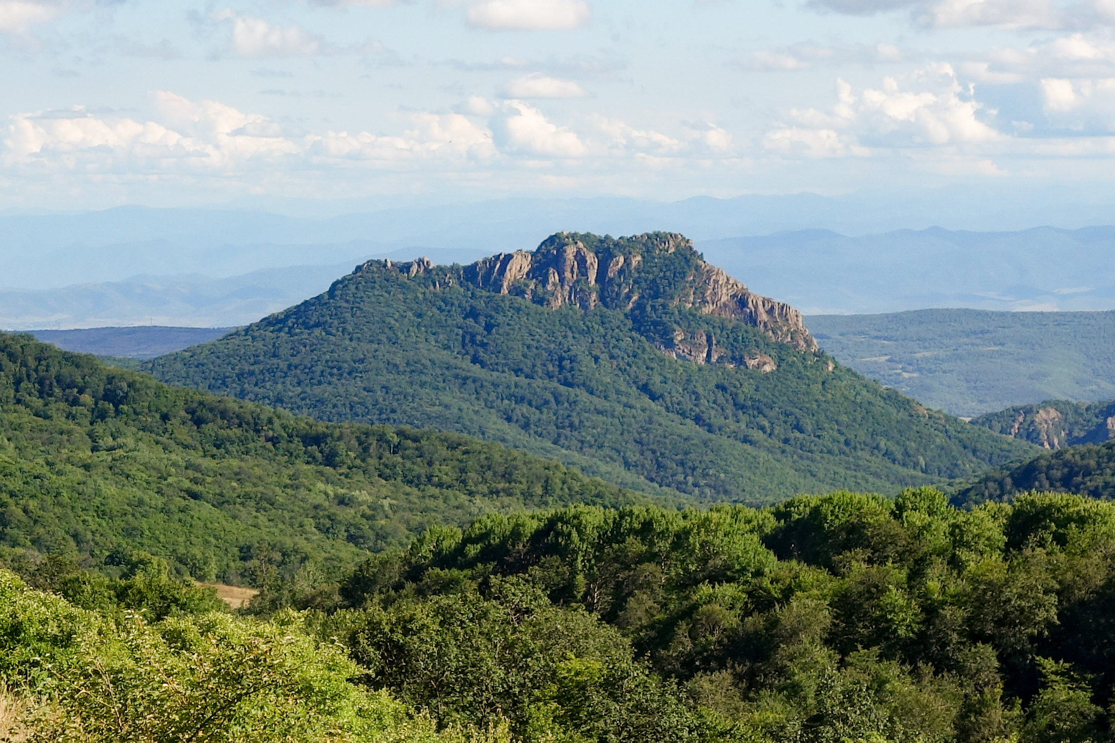 Orbeti Fortress as viewed from Orbeti village, Kvemo Kartli, Georgia